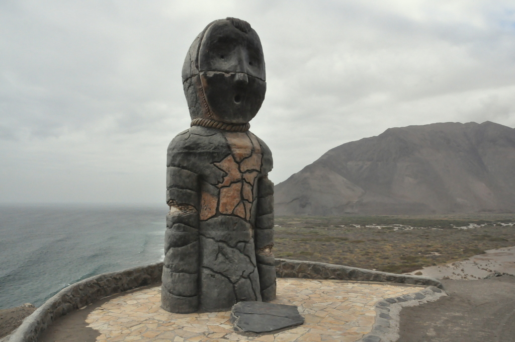 Camarones cove, commune of Camarones